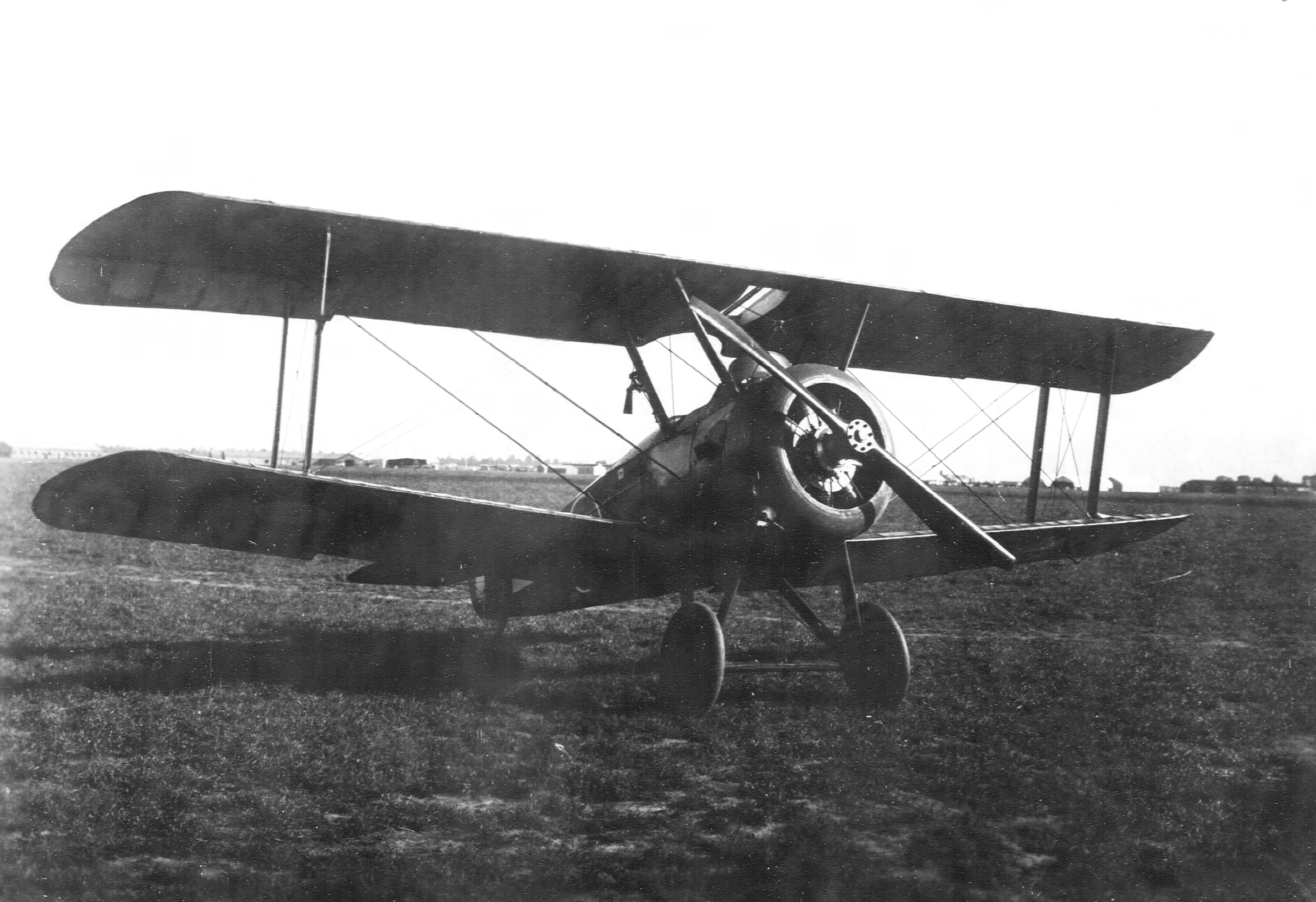 Sopwith Camel at Air Service Production Center No. 2, Romorantin Aerodrome, France, 1918